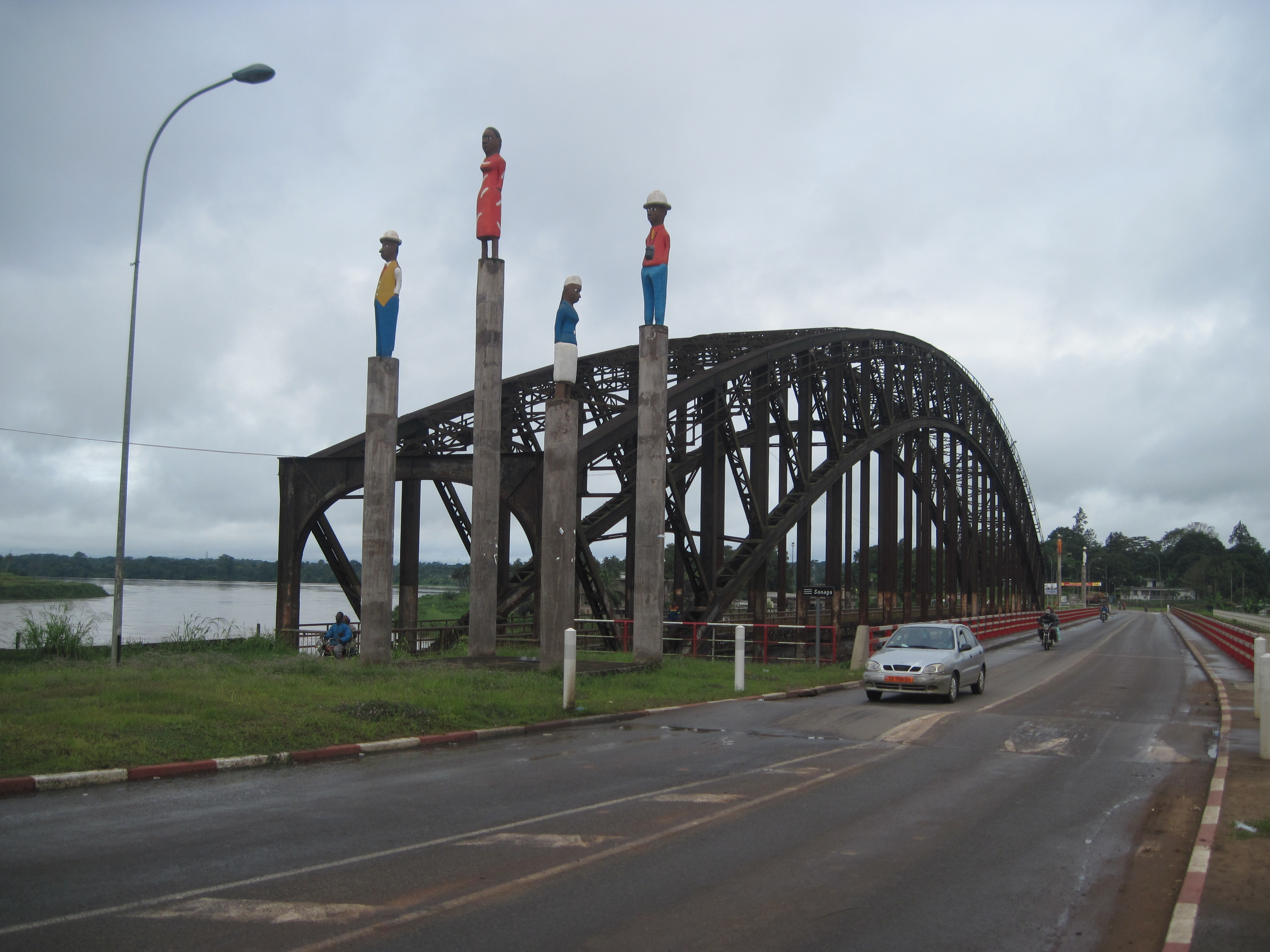 Edea bridge.